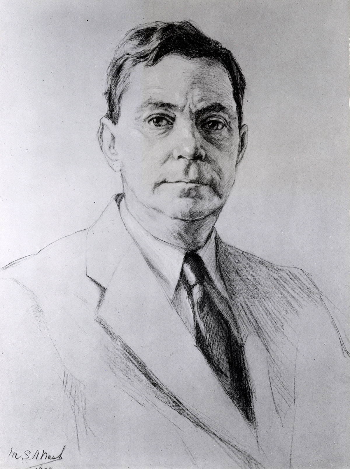 Robert D. W. Connor, First Archivist of the United States (1934-1941)